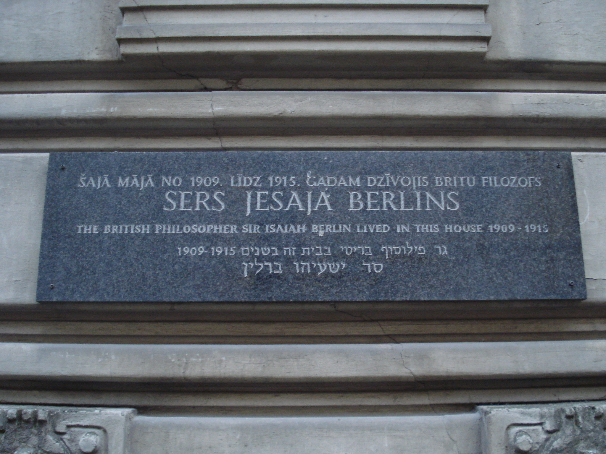 Plaque marking Isaiah Berlin's childhood home in Riga, Alberta ielā 2a